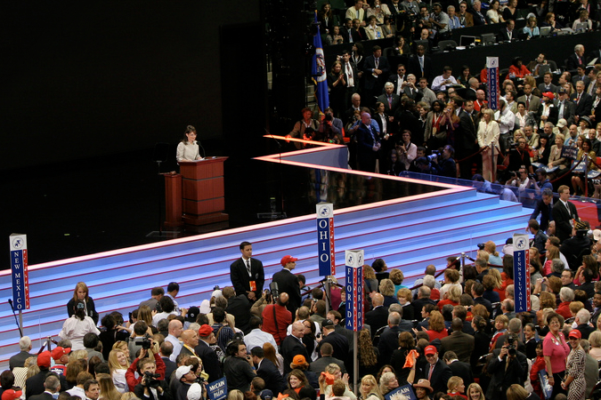 Sarah Palin addresses the w:2008 Republican National Convention in Saint Paul, Minnesota